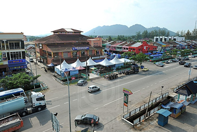 Pekan Parit Sulong